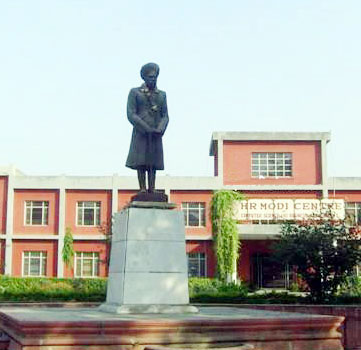 Multani Mal Modi College, Patiala, Photo by Yogesh Gurera